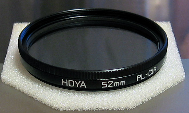 Hoya PL-CIR photo filter.